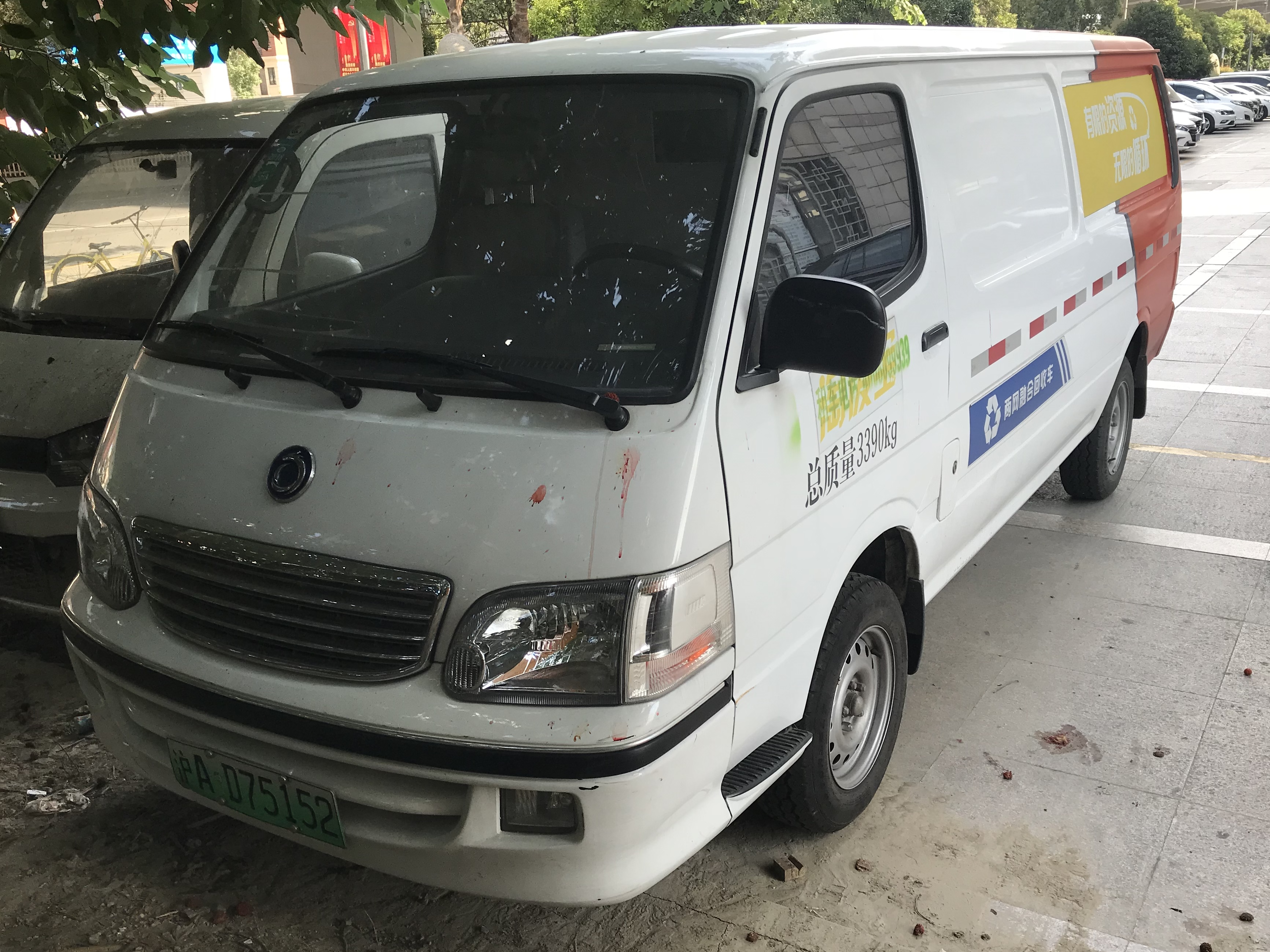 Sunlong Bus SLK5030 front